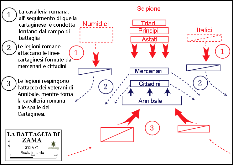 Italian traslation of File:Battle of Zama-battleplan.png